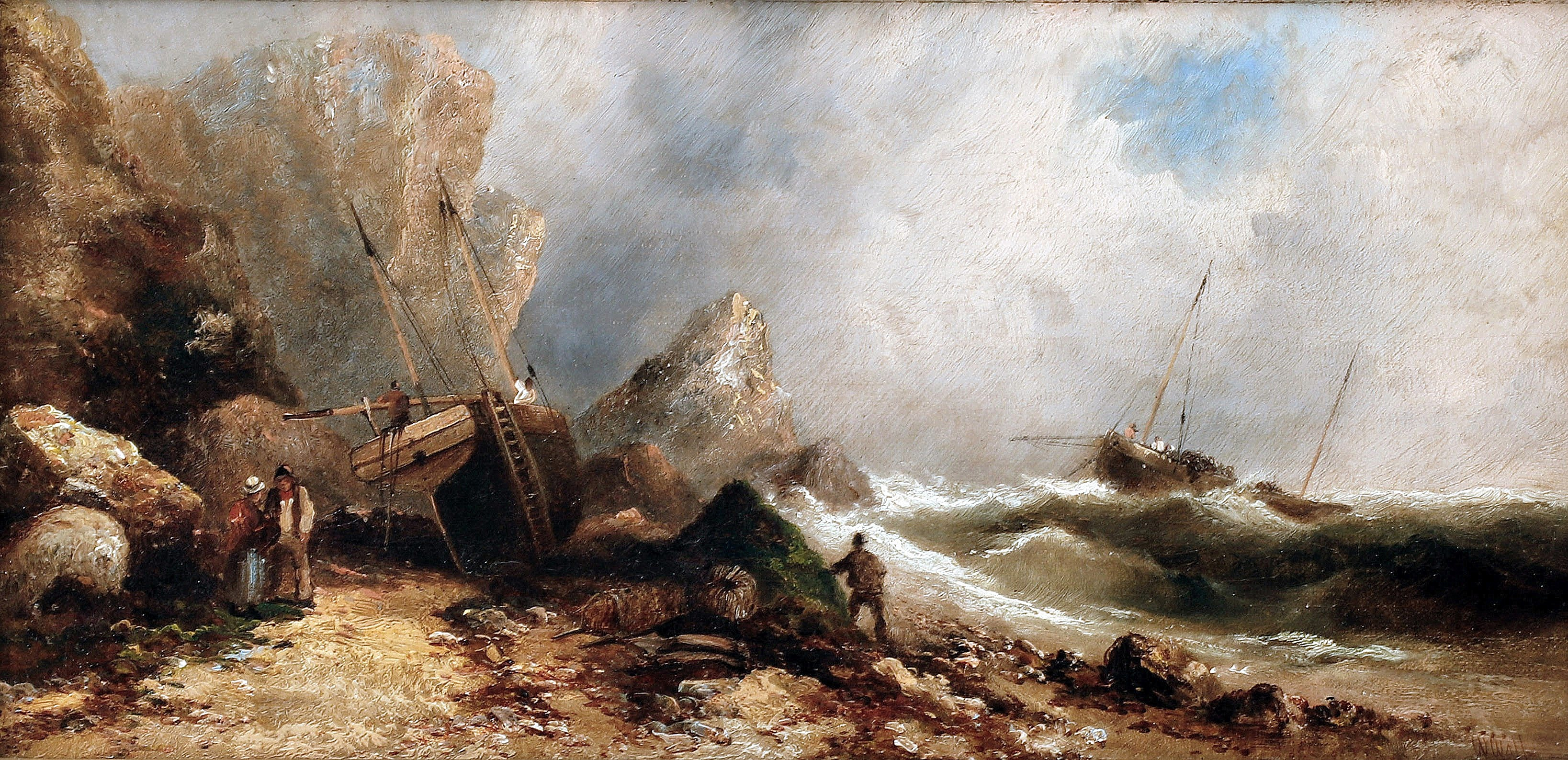 Oil painting of a beached fishing boat and a boat in very rough sea